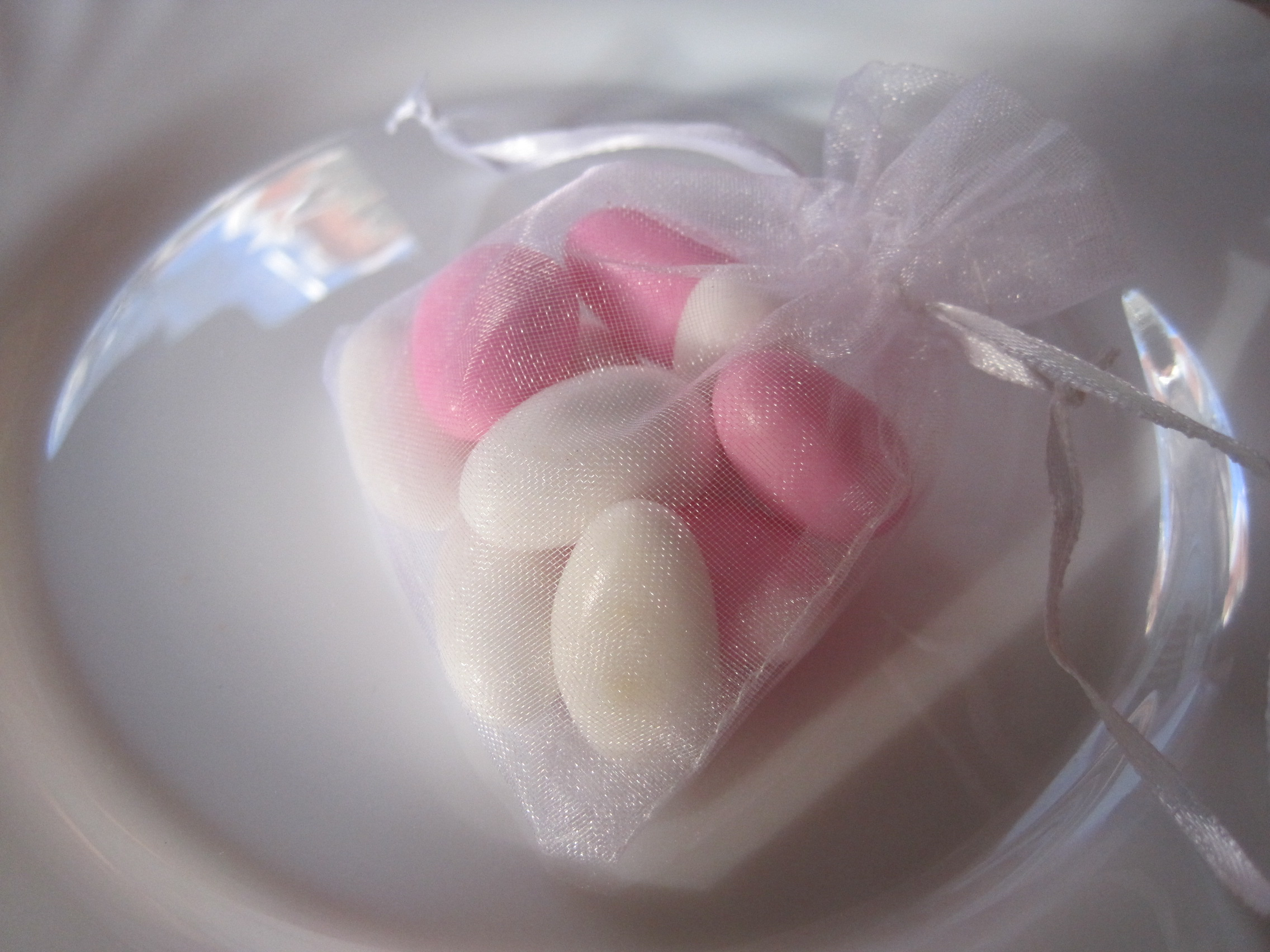 Dragée